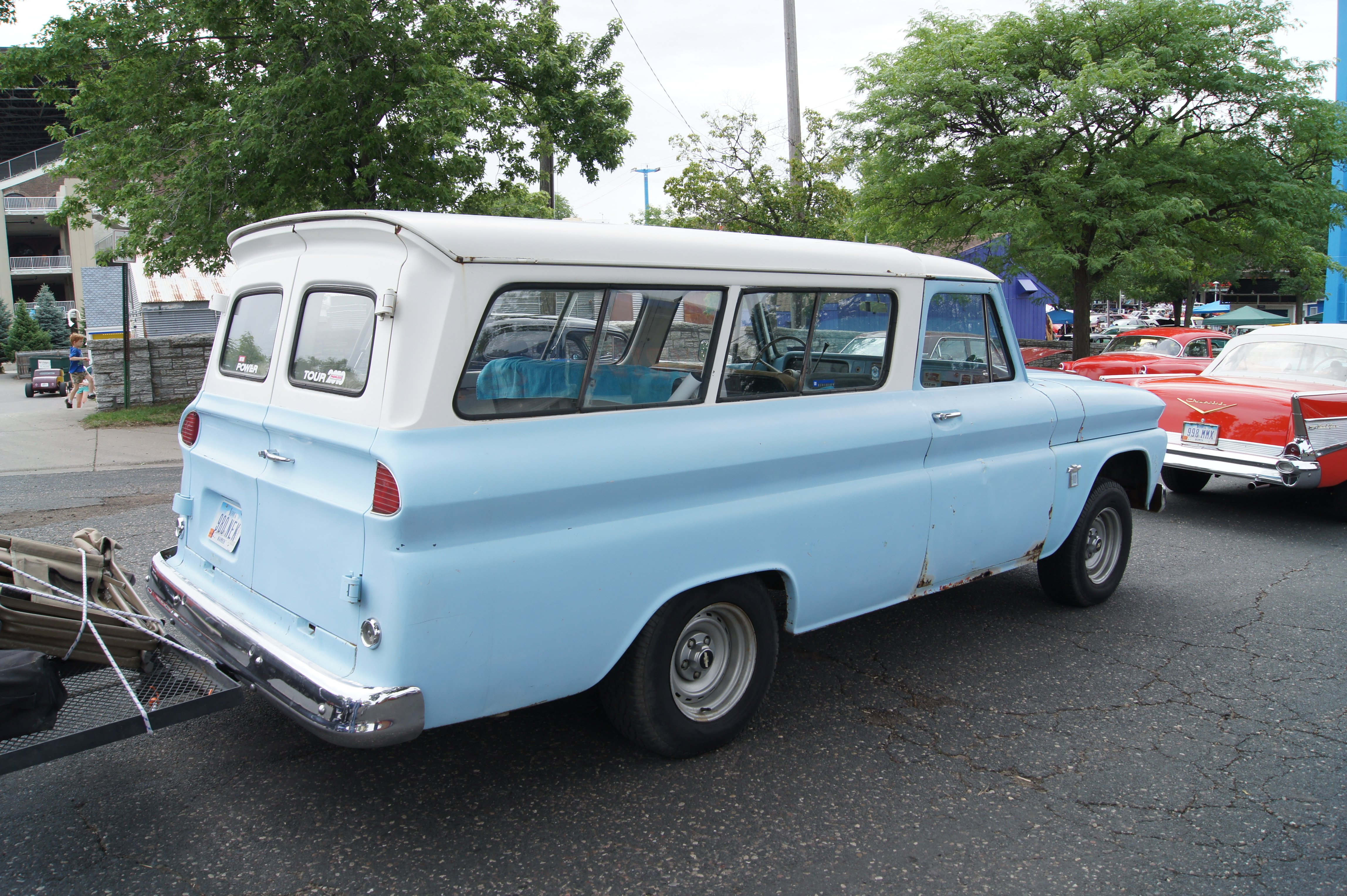 Minnesota Street Rod Association 39th Annual "Back to the Fifties" June 2012 Minnesota State Fairgrounds St. Paul MN